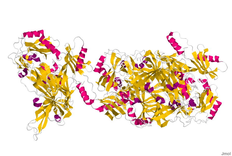 amine oxidase (copper containing)